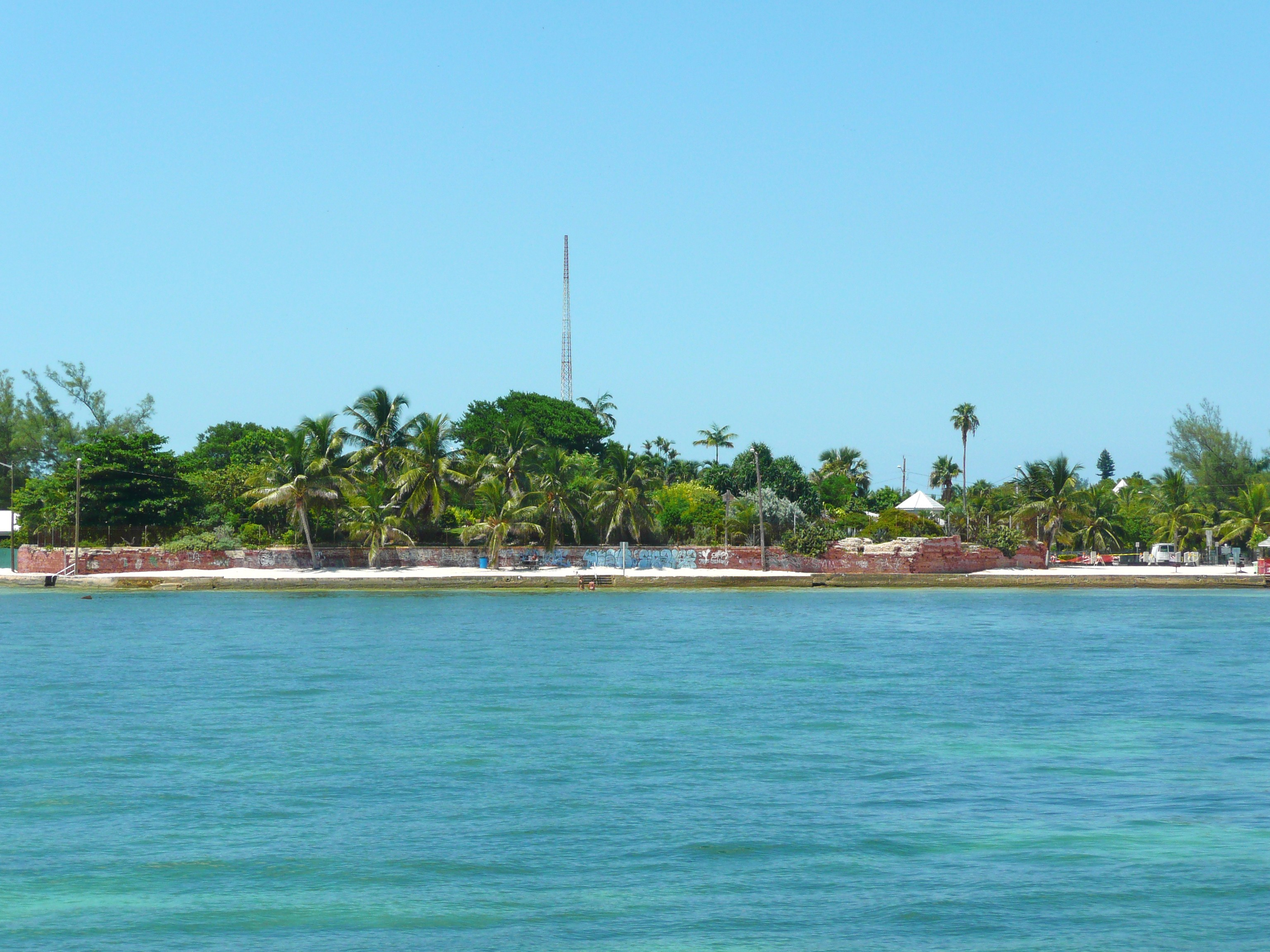 Digital photo taken by Marc Averette. West Martello Tower in Key West, Florida as seen from the Atlantic Ocean.